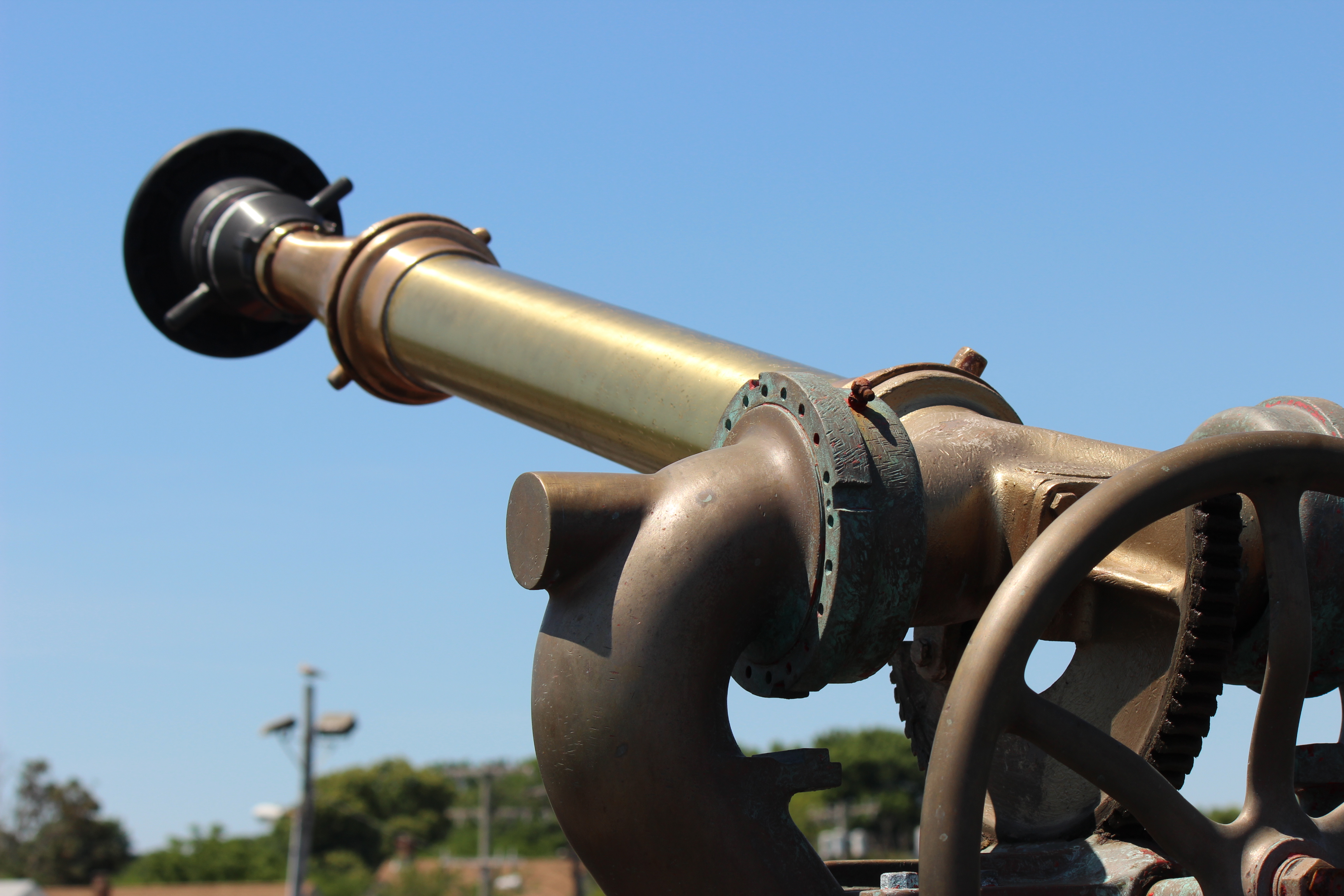 A picture of one of Fireboat Firefighter 's smaller 2,000gpm monitors, this cannon is located on her top deck forward to port.